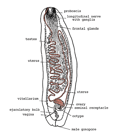 A drawing of juvenile Amphilina foliacea from the body cavity of the intermediate host, amphipod Pontogammarus robustoides.